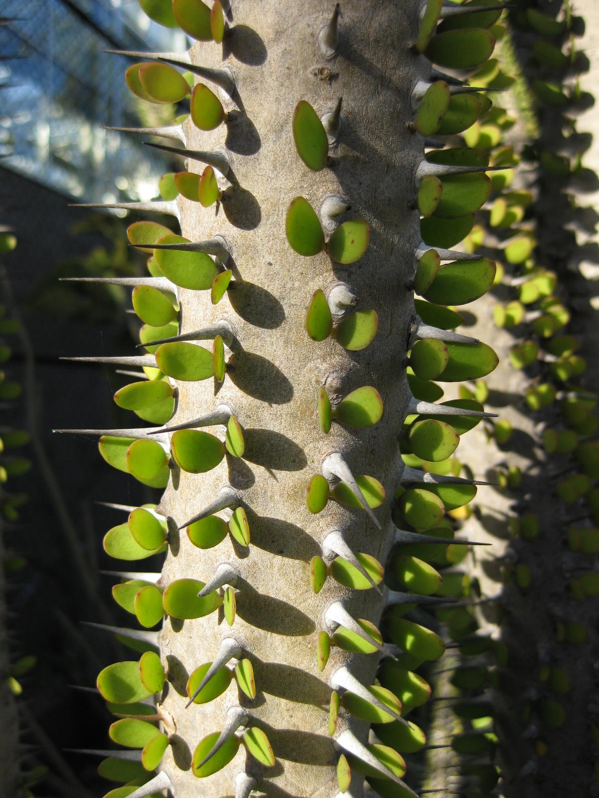 Photographed Mildred E. Mathias Botanical Garden at UCLA (Los Angeles, California) in November